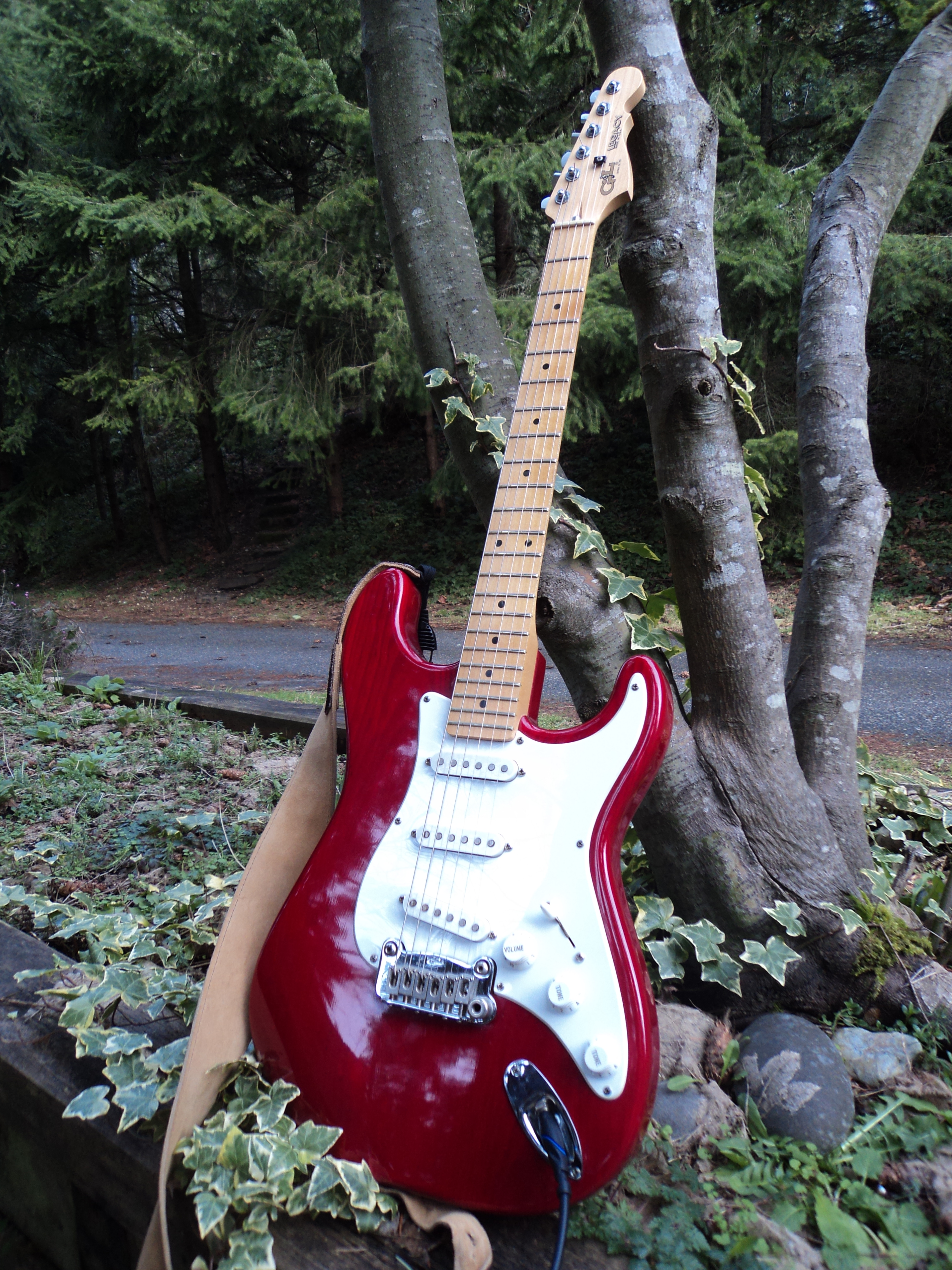 Personal picture by uploader. G&L Legacy guitar, 93 Clear Red